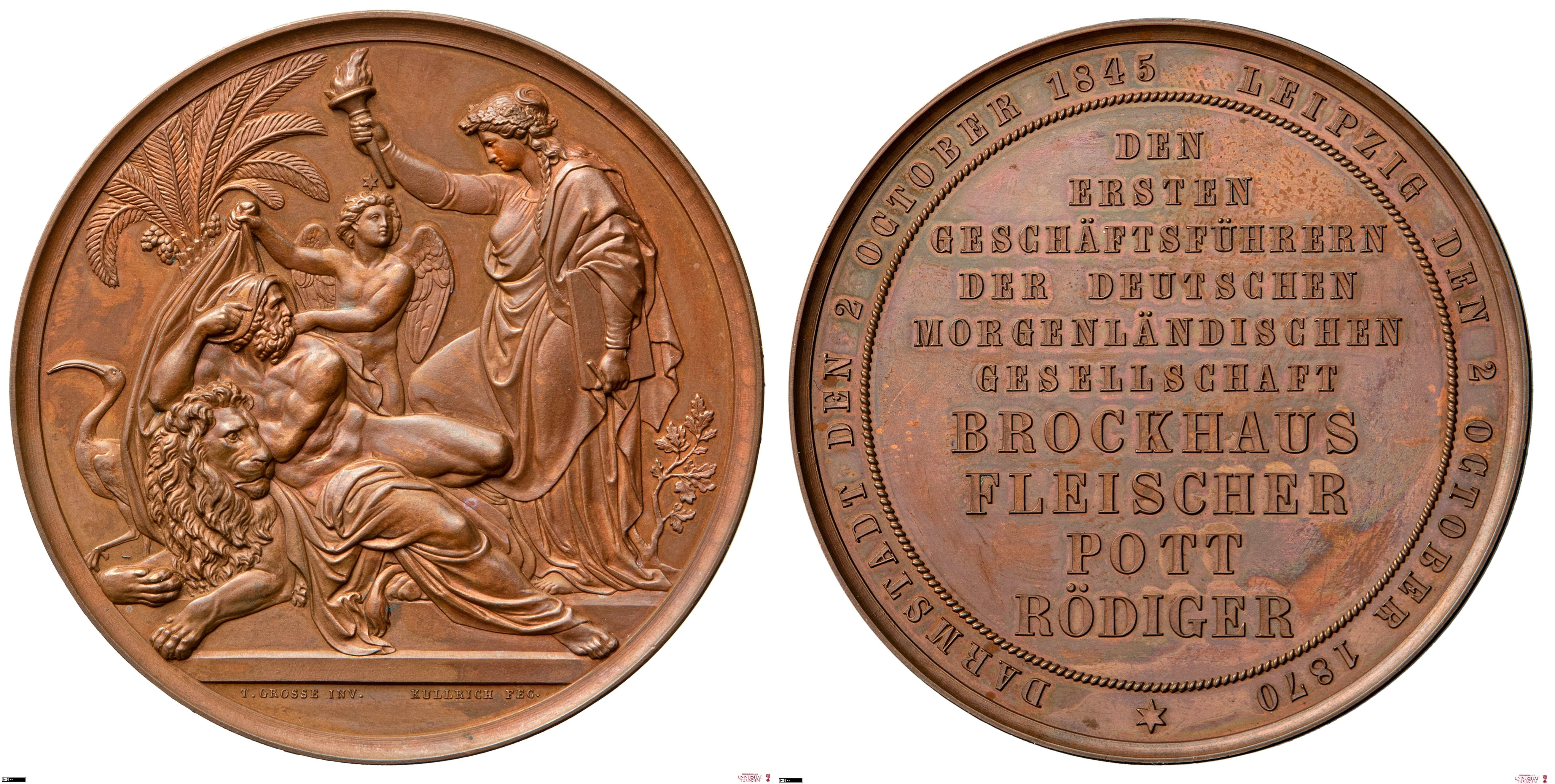 The front side depicts a reclining man upon a lion who is unveiled by a winged youth. On the other side a woman approaches the man holding a torch and a board with stilus in the hands. An ibis and a palm tree are placed in the background of the man. Besides the woman a small oak tree is to be found. Below the picture are given the names of the inventor of the image, Theodor Grosse, and the engraver, Wilhelm Kullrich. The back side names on the outside the occasion of the coinage as the 25th anniversary of the foundation of the "Deutsche Morgenländische Gesellschaft"[2]. On the inside is a dedication for the first secretaries of the Deutsche Morgenländische Gesellschaft.